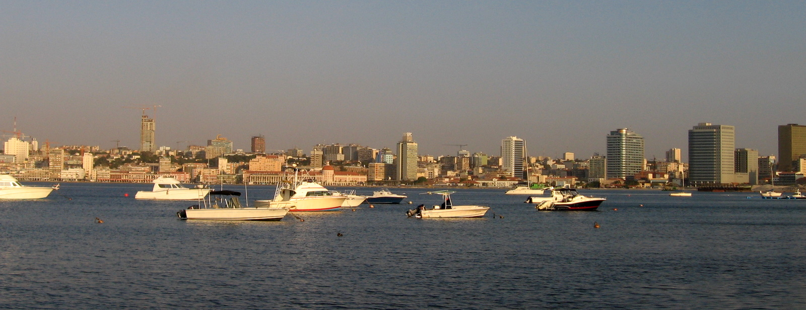 Bay of Luanda (view from Island of Luanda), Angola.